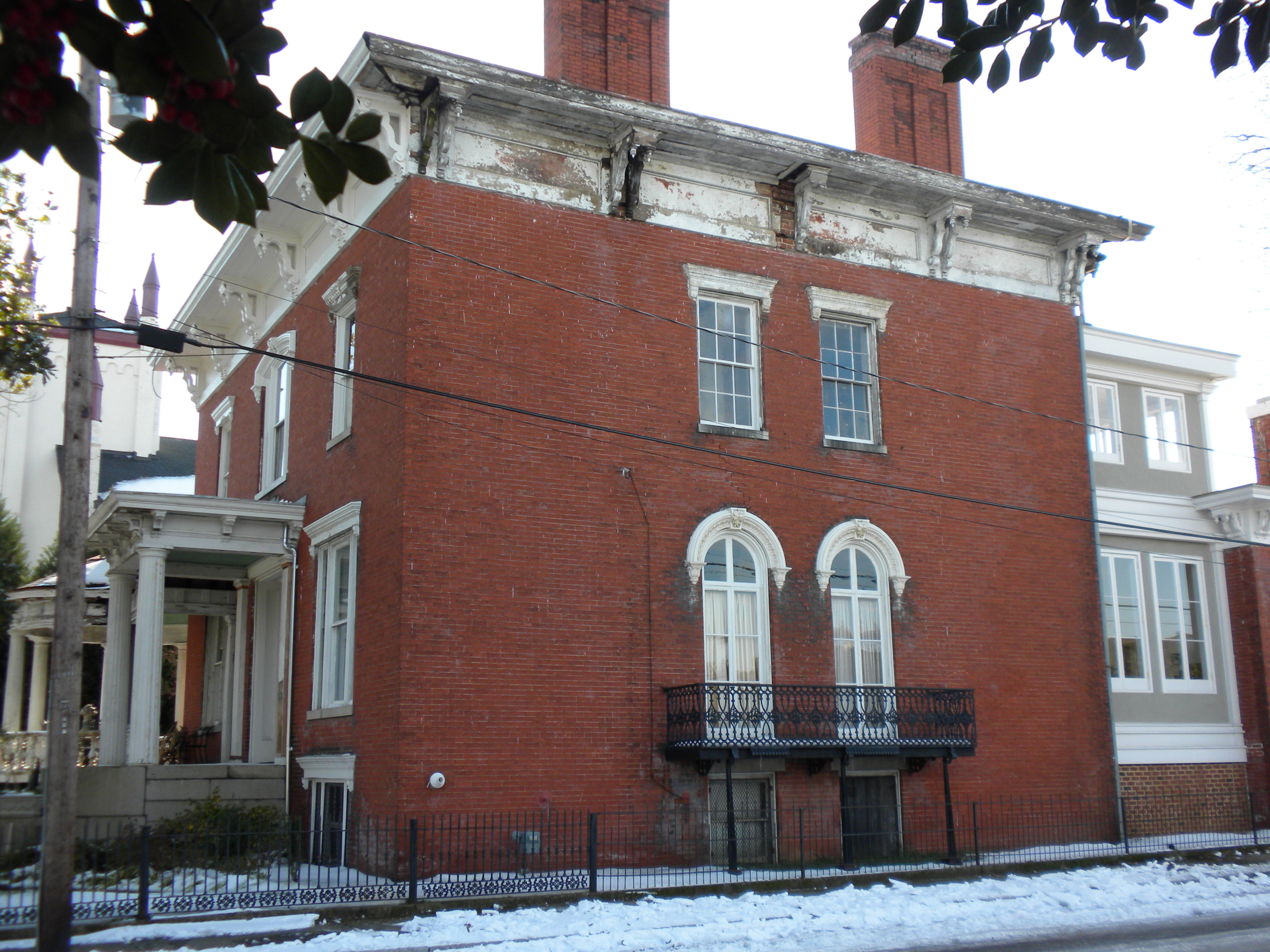 Thomas Wallace House, Petersburg Virginia. On NRHP. President Lincoln met Gen. US Grant there after the fall of Petersburg. I donate this photo to the public domain.